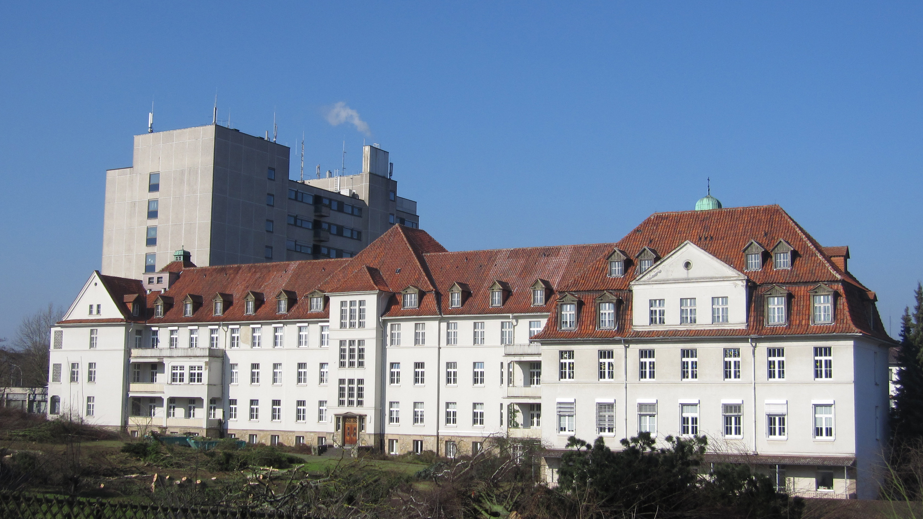 The former old building of St. Petri hospital in Warburg, North Rhine-Westphalia, Germany, built from 1923-1926. The former 1973 extension building can be seen in the background. Both buildings have been demolished between 2013 and 2014.